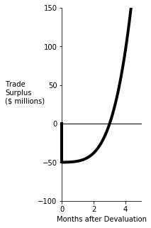 The J curve, a file created in Python 3 with jcurve.py.